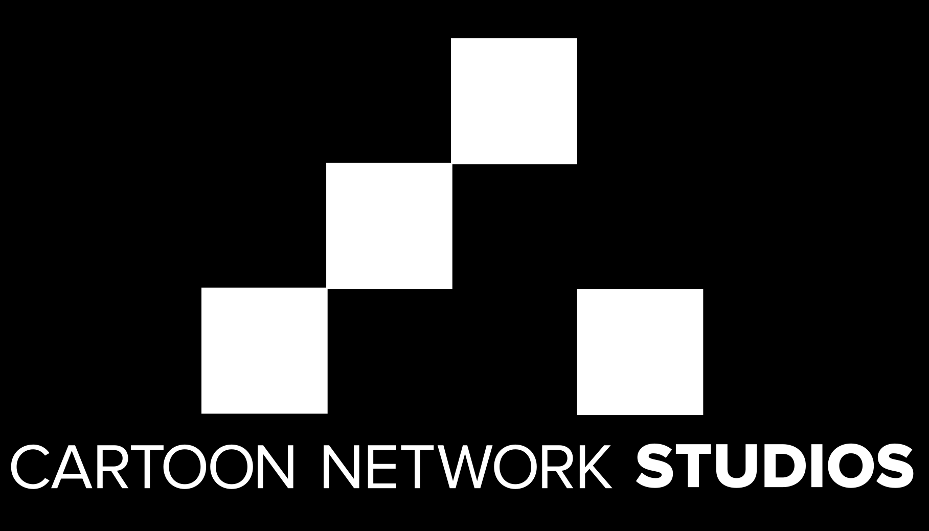 Cartoon Network Studios logo